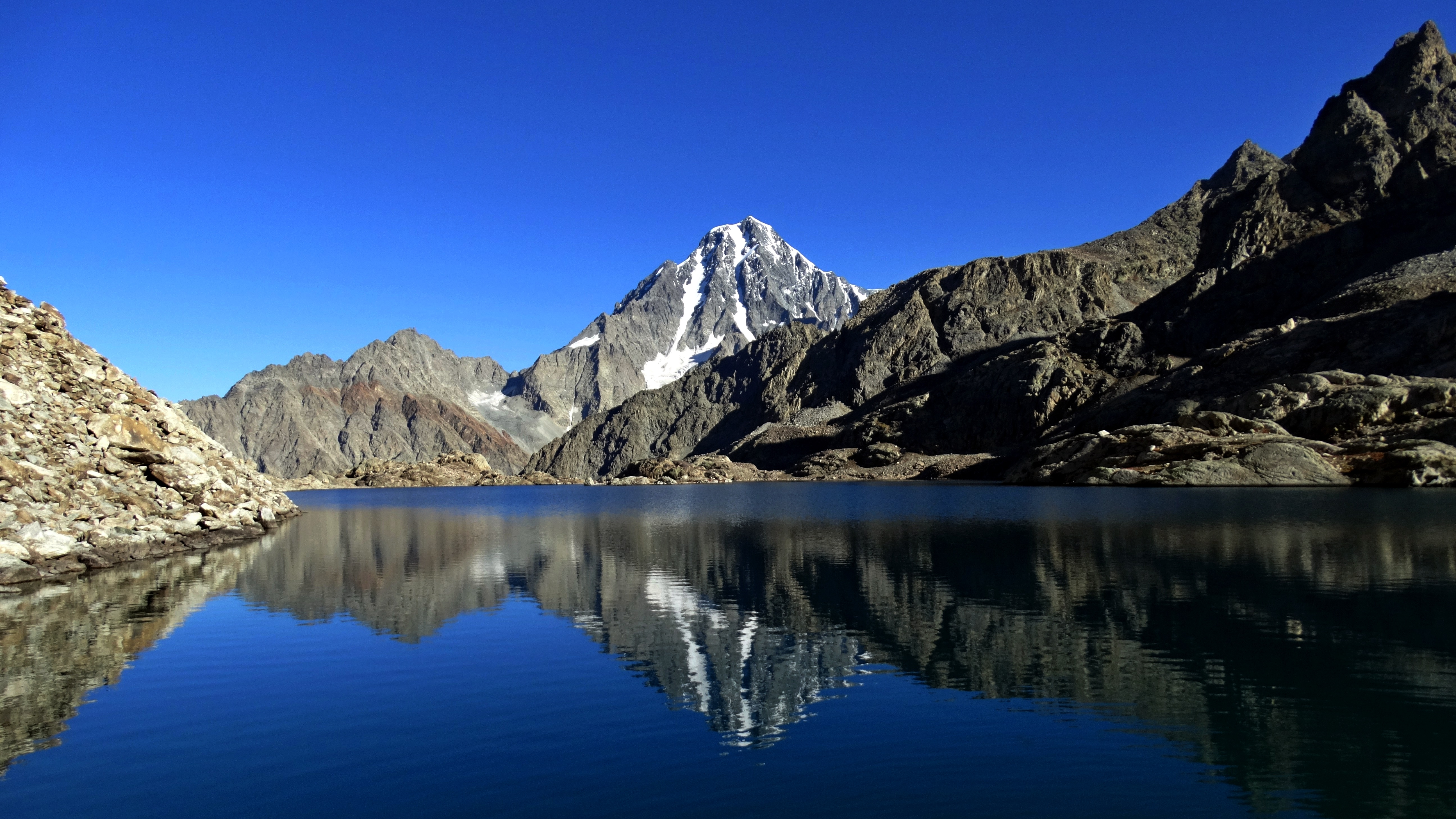 Jabba Zomalu Lake,Elevation 14040 ft approx. Ushu Valley Kalam-Swat-Pakistan. It gives unique view of Mt. Falaksar (Elev.19416 ft).